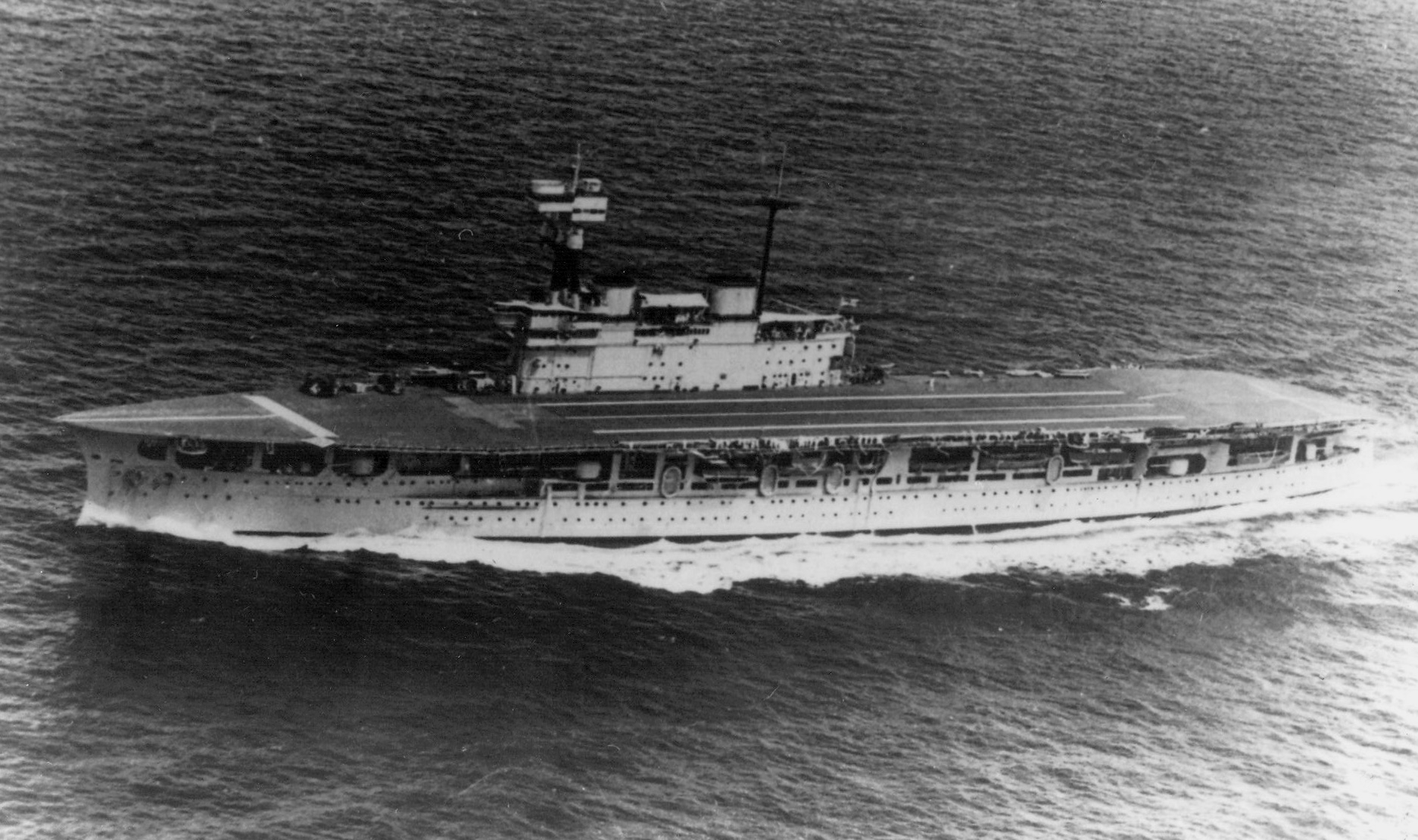 The Royal Navy aircraft carrier HMS Eagle underway. The U.S. Navy give the date as 1942, but due to the lack of camouflage and wartime modifications this photograph was probably taken in the 1930s.